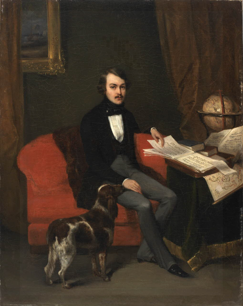 Portrait of Denis François Le Coat de Kerveguen with his dog Cato, by his wife Adèle Ferrand.